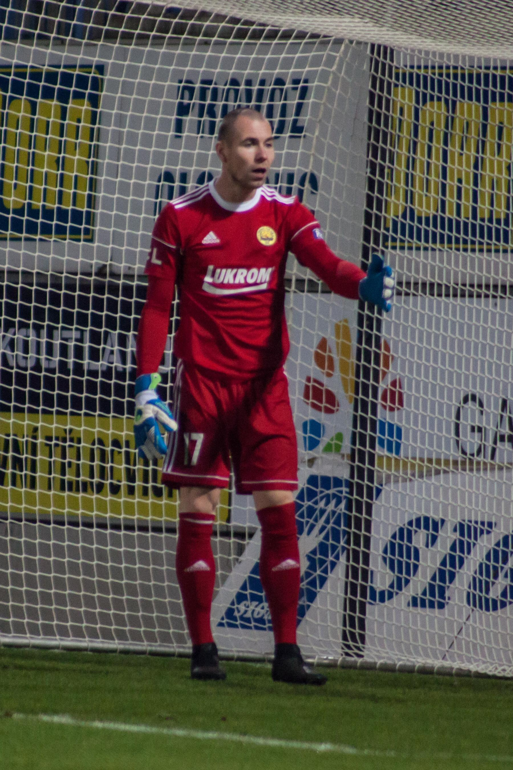 Stanislav Dostál At Czech cup (MOL Cup) match SK Sigma Olomouc-FC Fastav Zlín played on 15 November 2018